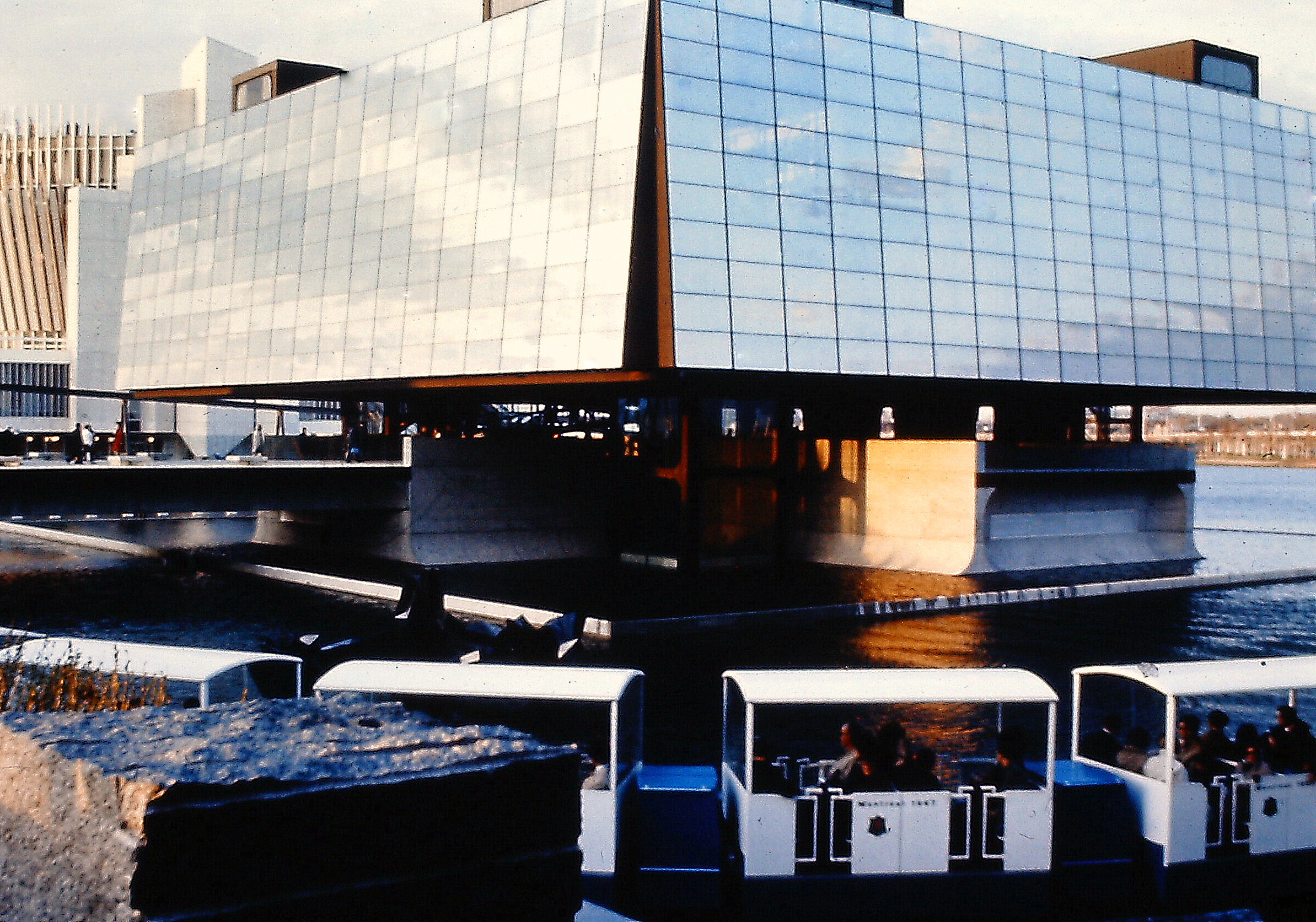 Quebec Pavilion at Universal Exposition of 1967, Montreal, Quebec, Canada